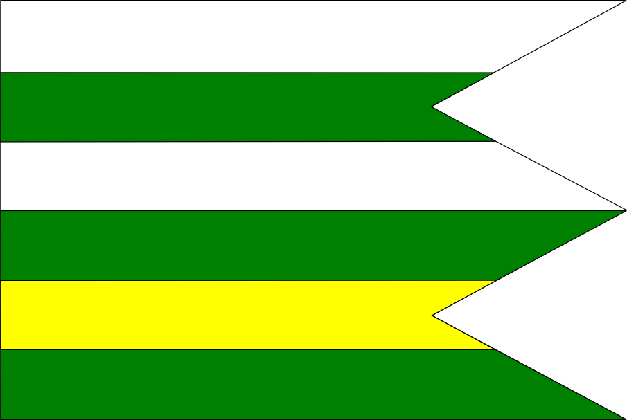 Flag of Staré Hory, Slovakia